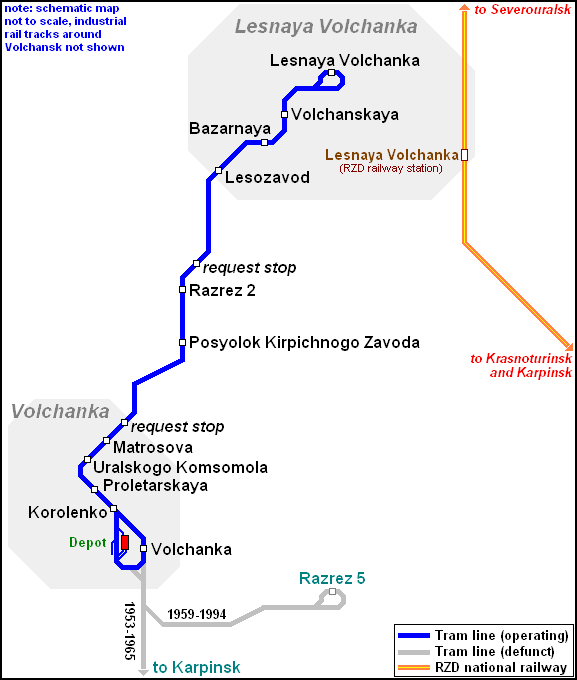 Schematic map of Volchansk Tramway (Sverdlovsk Oblast, Russia). Operating tram line shown in blue, defunct tram lines shown in light grey, RZD Russian national railway shown in orange and yellow. Not to scale, industrial railways around Volchansk not shown.